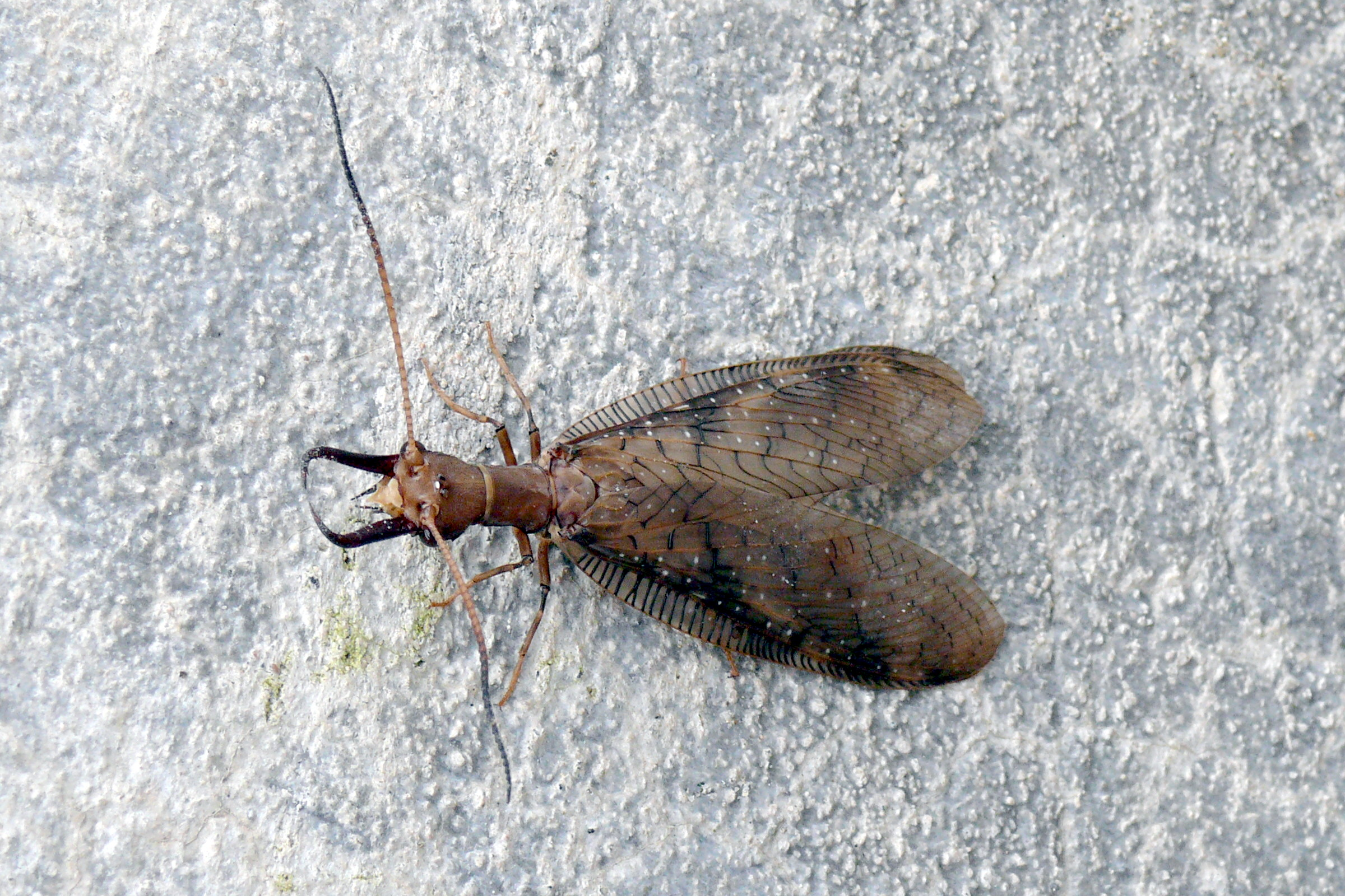 Corydalus sp.